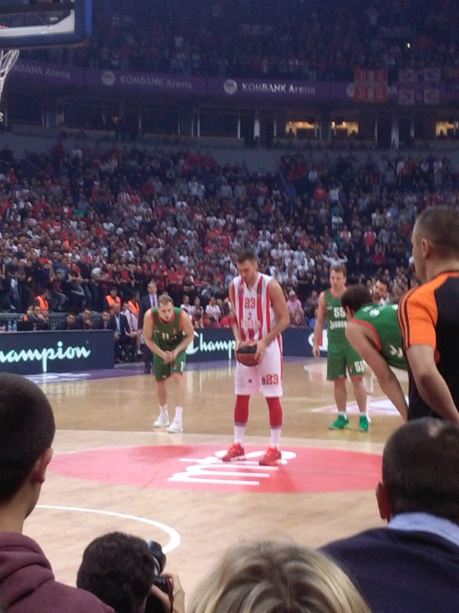 Gudurić in November 2016